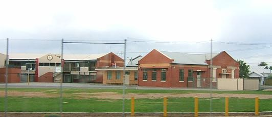 ST Margaret Mar'y Catholic SChool, Croydon Park, Adelaide, South Australia